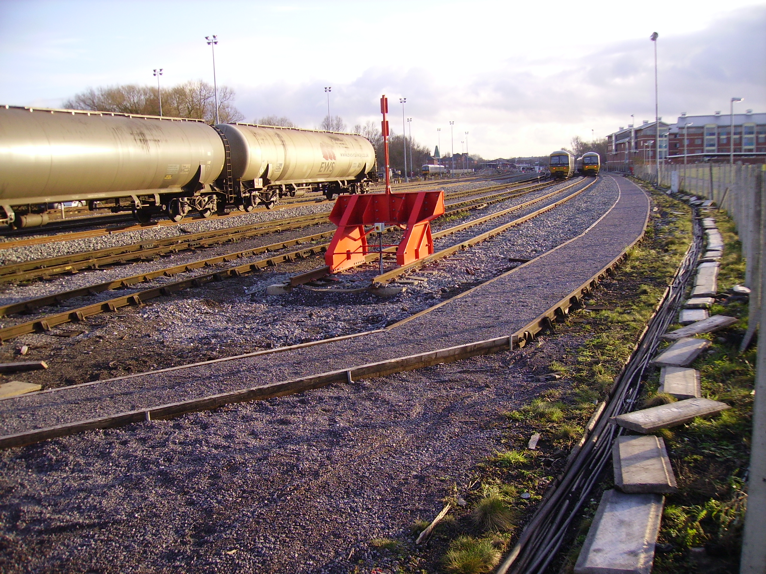 Stabling sidings outside Oxford station Two First Great Western Turbo commuter trains wait in the stabling sidings north of Oxford to form services for London Paddington whilst an EWS freight train waits on the down slow line for signal clearance. Oxford station can be seen in the distance.